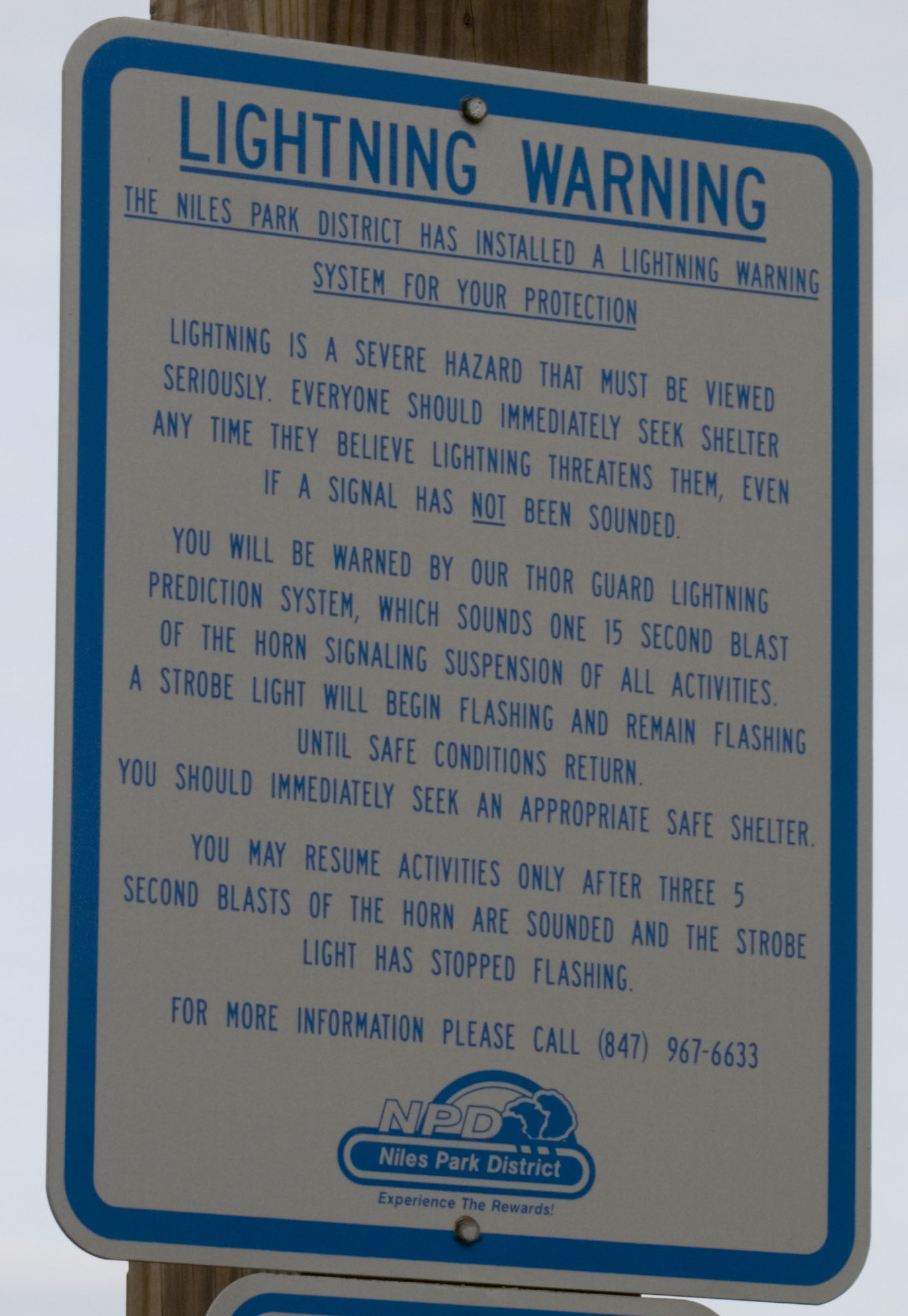 Informational and instructional sign provided by the Niles Park District for its lightning warning system. Photographed at Kirk Lane Park, Niles, Illinois.